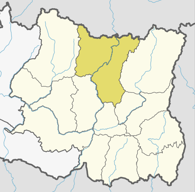 Sankhuwasabha district